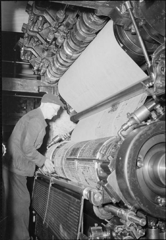 The Makings of a Modern Newspaper- the Production of 'the Daily Mail' in Wartime, London, UK, 1944 A newspaper man adjusts the rollers on the printing press as a copy of the Daily Mail is printed. Note the metal letters which are inked and then form the print on the paper.